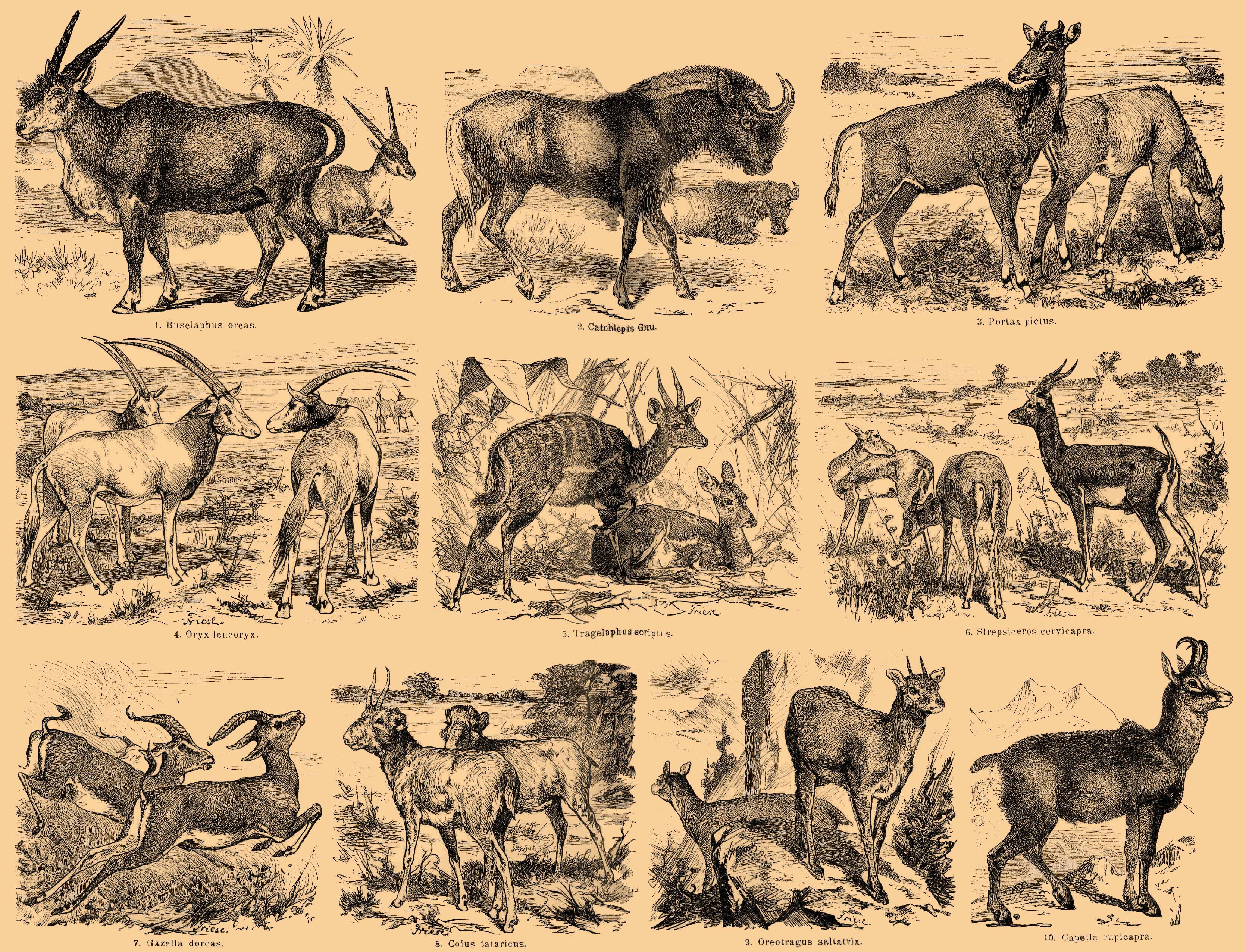 Antelopes. Draving from the Brockhaus and Efron Encyclopedic Dictionary, 1890-1907